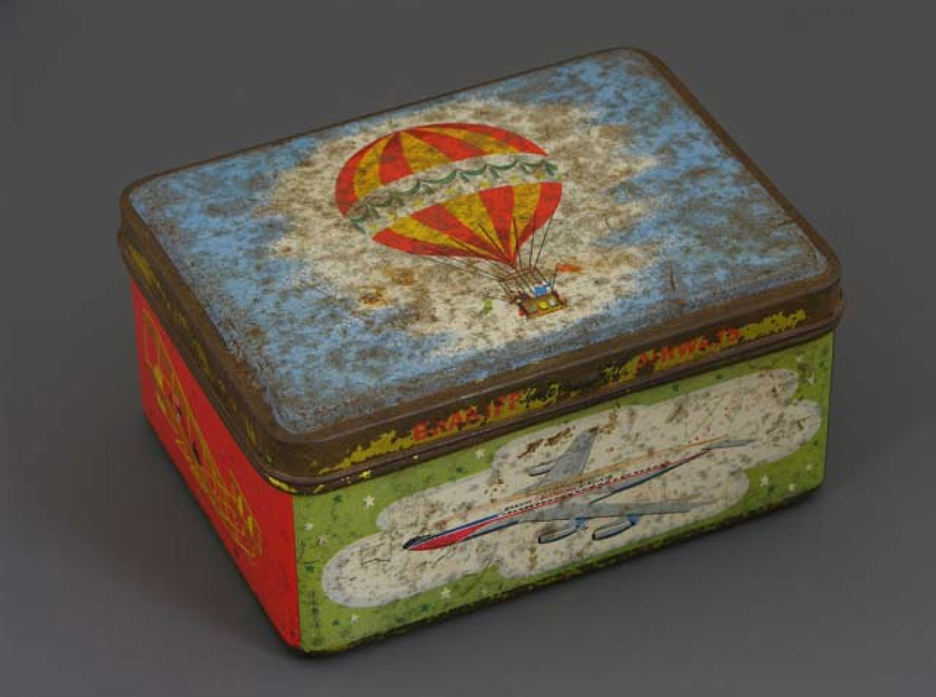 Metal box from the Braniff airline company in Mexico from second half of the 20th century.